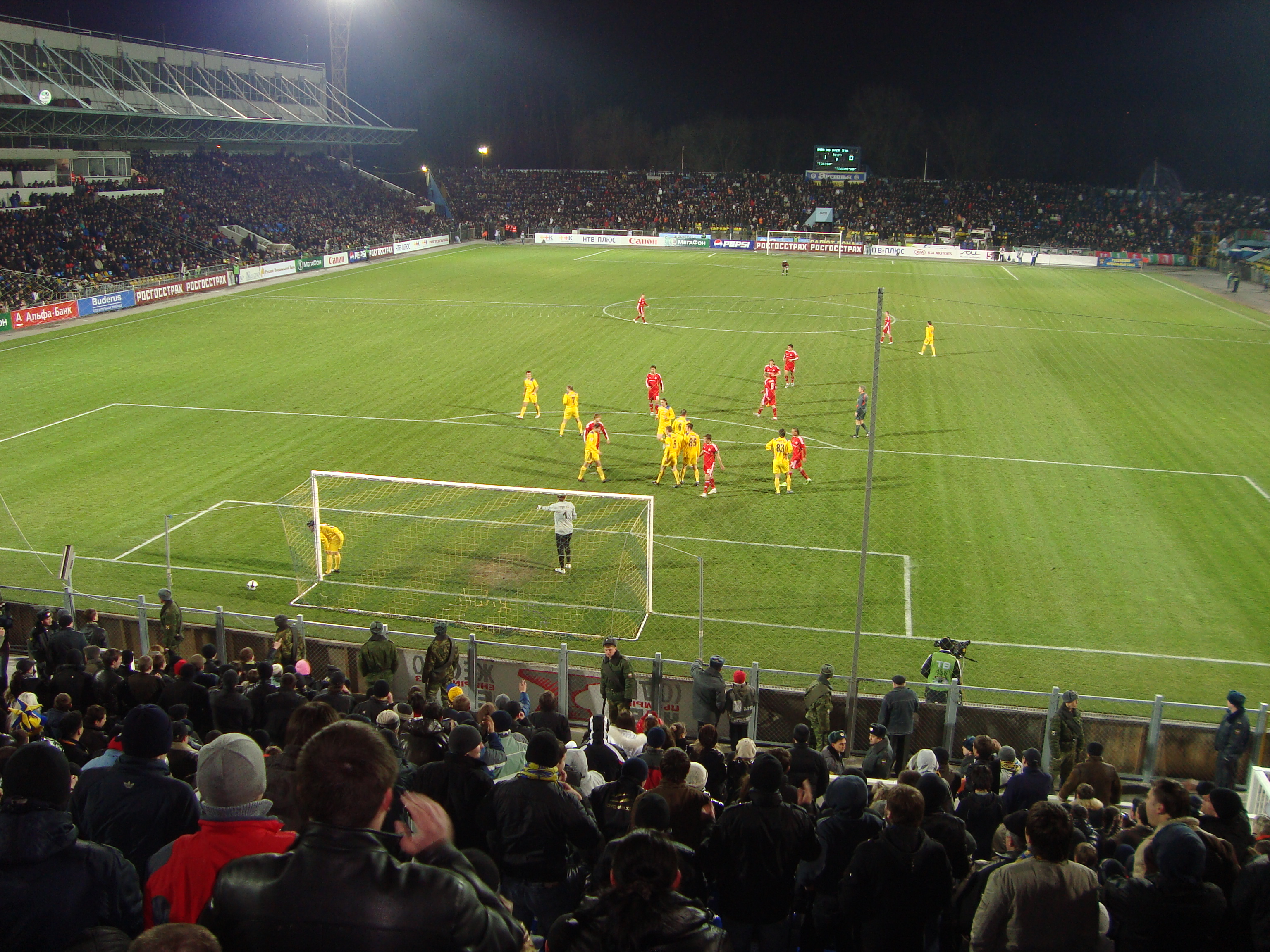 A photo from the match of FC Rostov against Lokomotiv Moscow in 2009.